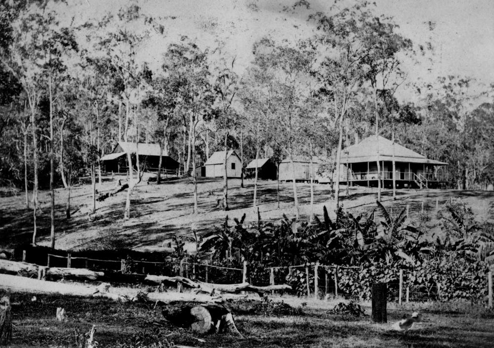 Early view of Rainworth homestead and outbuildings, Torwood, ca. 1875 Rainworth was in Baroona Road at Torwood. The home was built for Sir Augustus Charles Gregory who was an explorer and also became the first Mayor of Toowong in 1902.